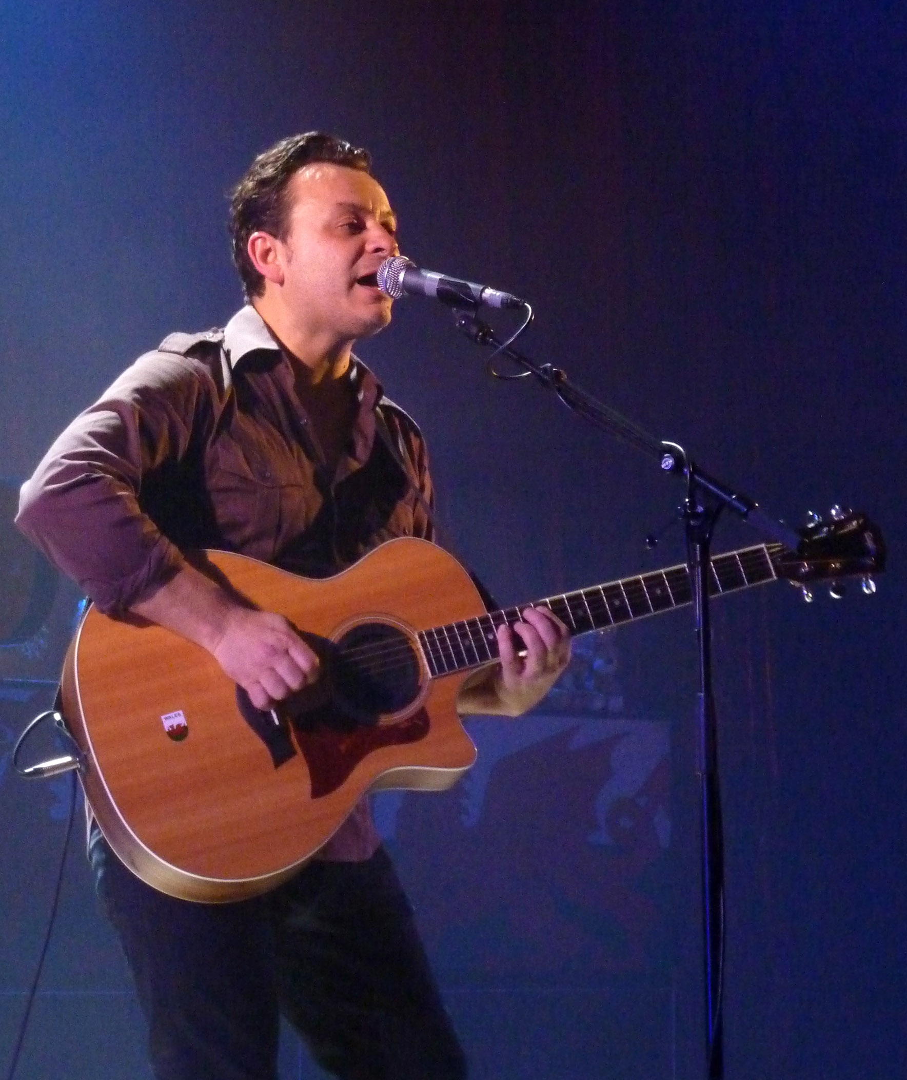 James Dean Bradfield performing with Manic Street Preachers at Leicester De Monfort Hall on October 31, 2010. Taken by Markus Unger.